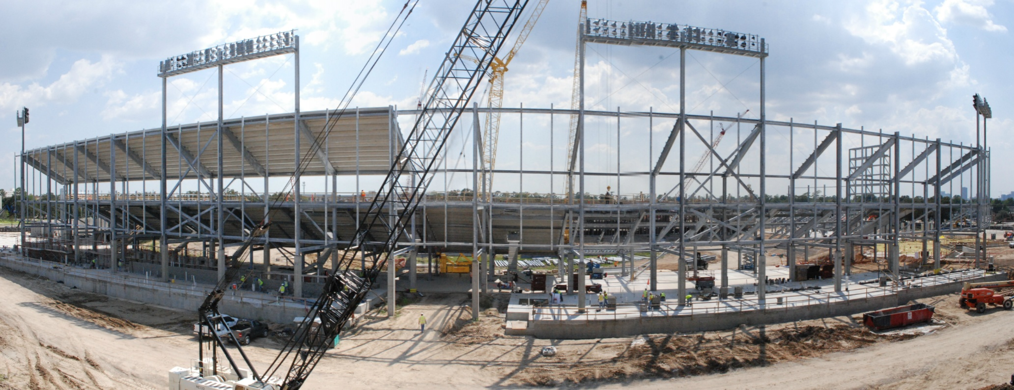 Construction of the north side stands for the unnamed American football stadium at the University of Houston campus to be used by the Houston Cougars football team. If published elsewhere, the following attribution credit must accompany this image: "Photo by Brian Reading"